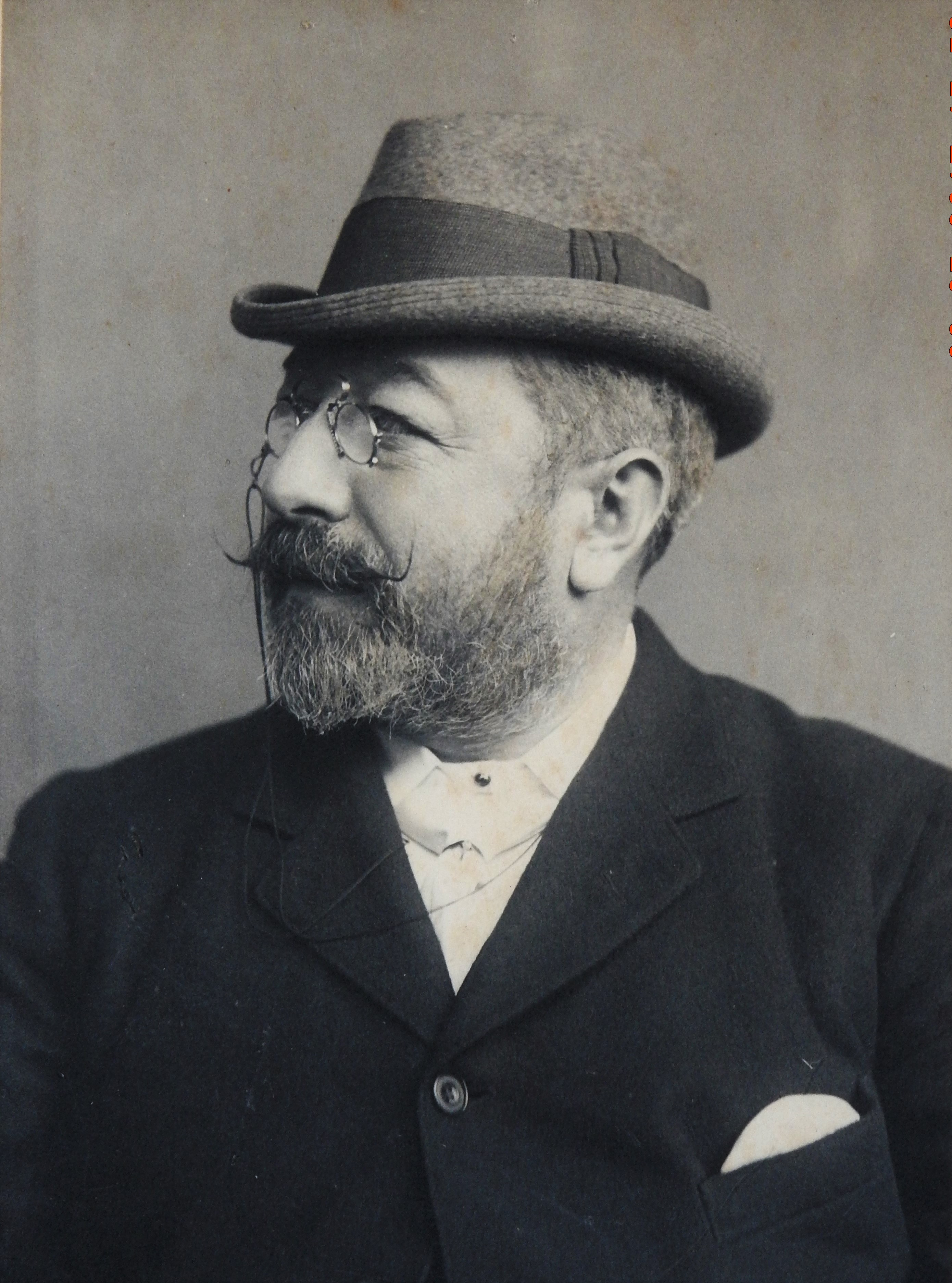 Alfred Barnard (1837-1918), specialist of the whisky distilleries and breweries